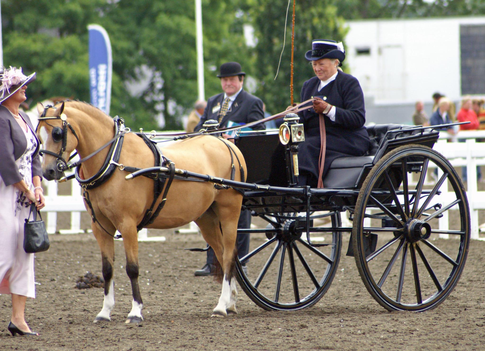 Driving Competion